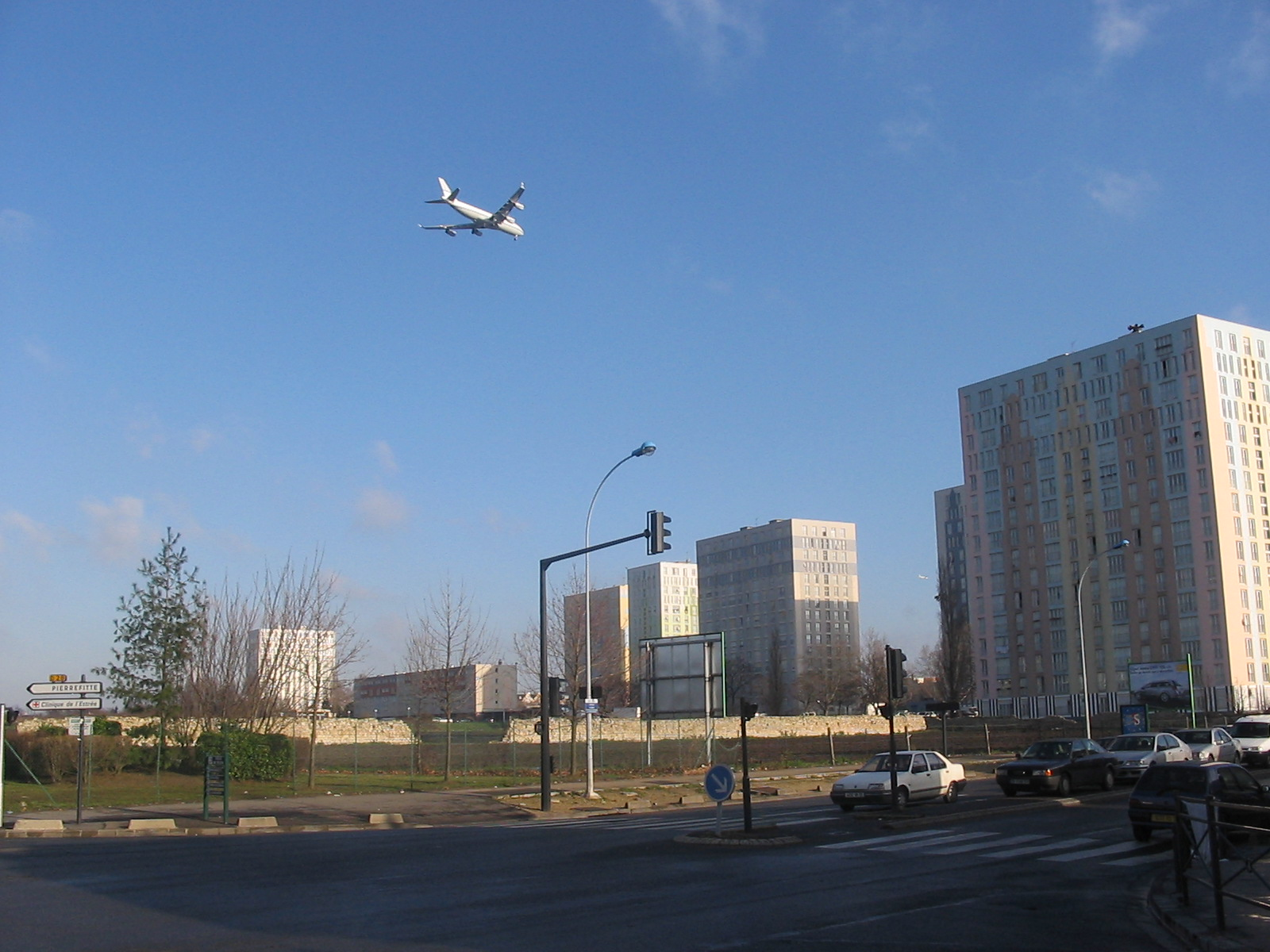 Housing estate Clos Saint-Lazare in Stains (93)